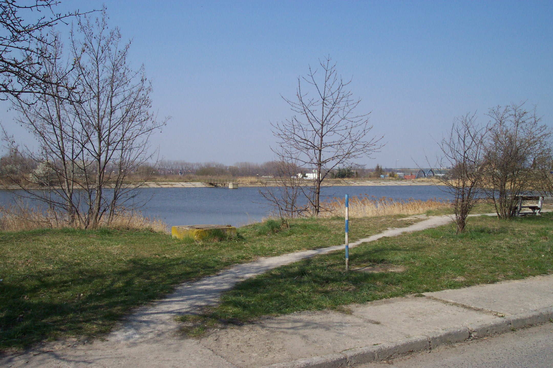 A pond/reservoir in Praha Zličín